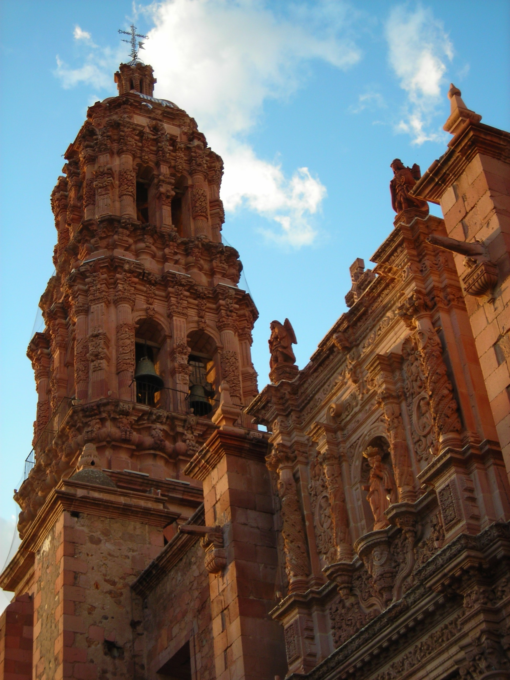 Baroque bell tower of the Cathedral of Zacatecas, México.